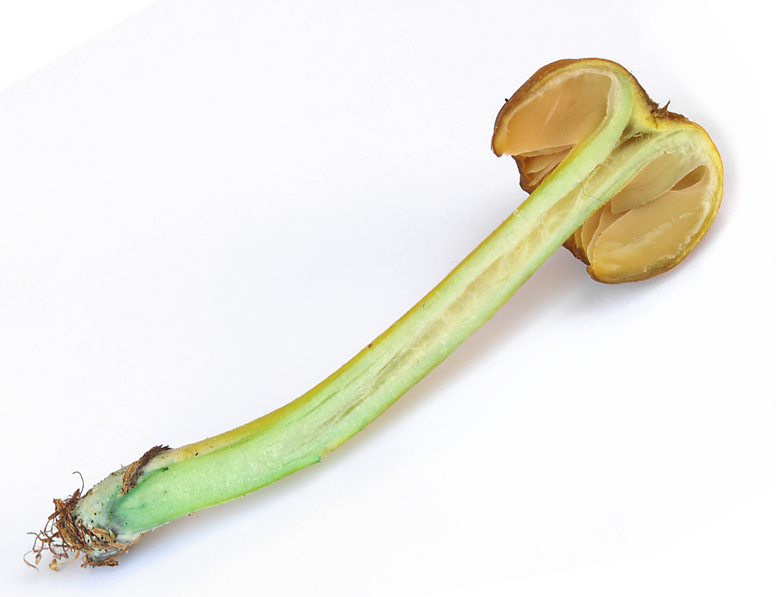 Mousepee Pinkgill (Entoloma incanum)